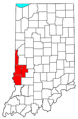 Locator map of the Terre Haute Metropolitan Statistical Area in the western part of the U.S. state of Indiana.